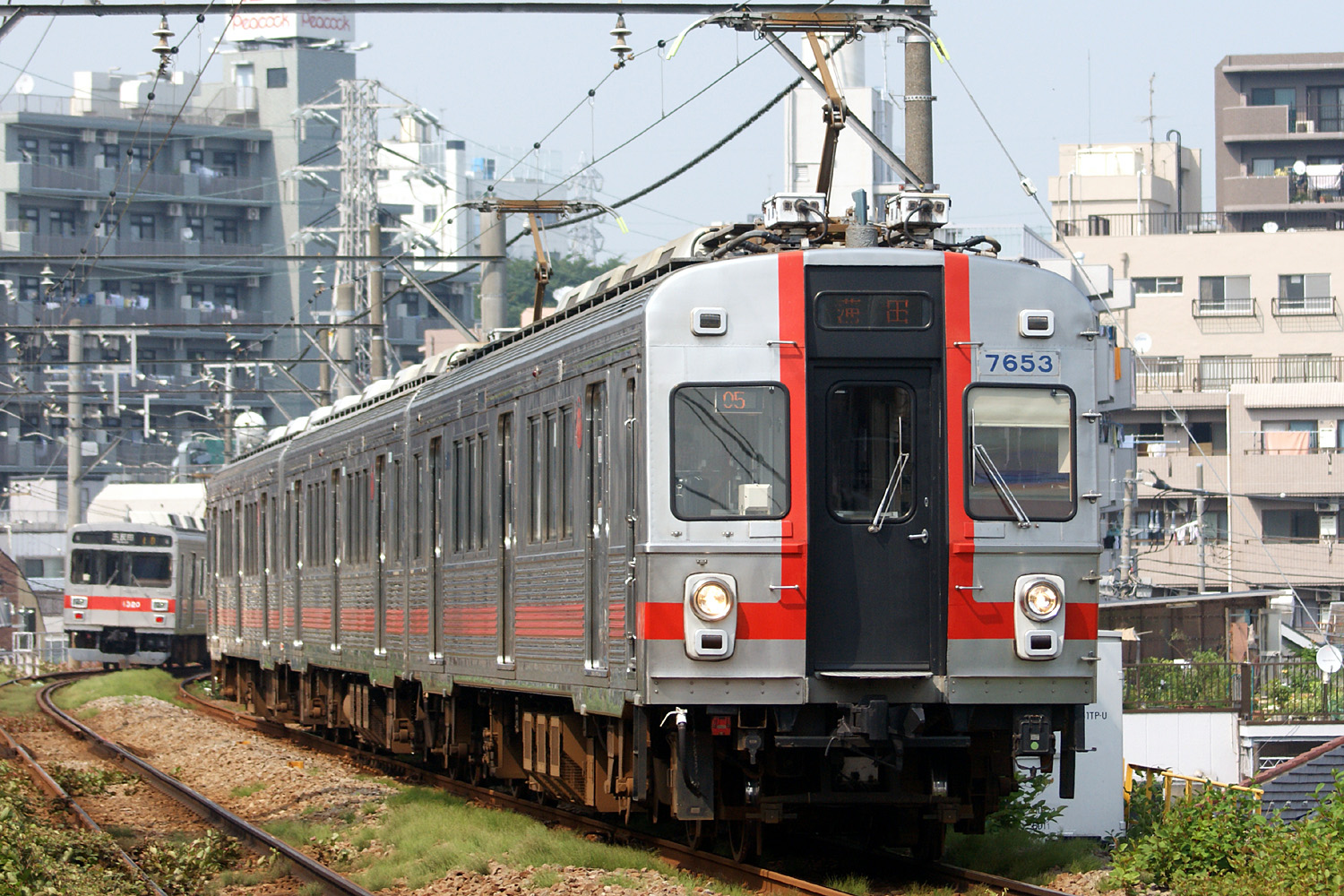 Tokyu electric railway series 7600 EMU, Ikegami-line.